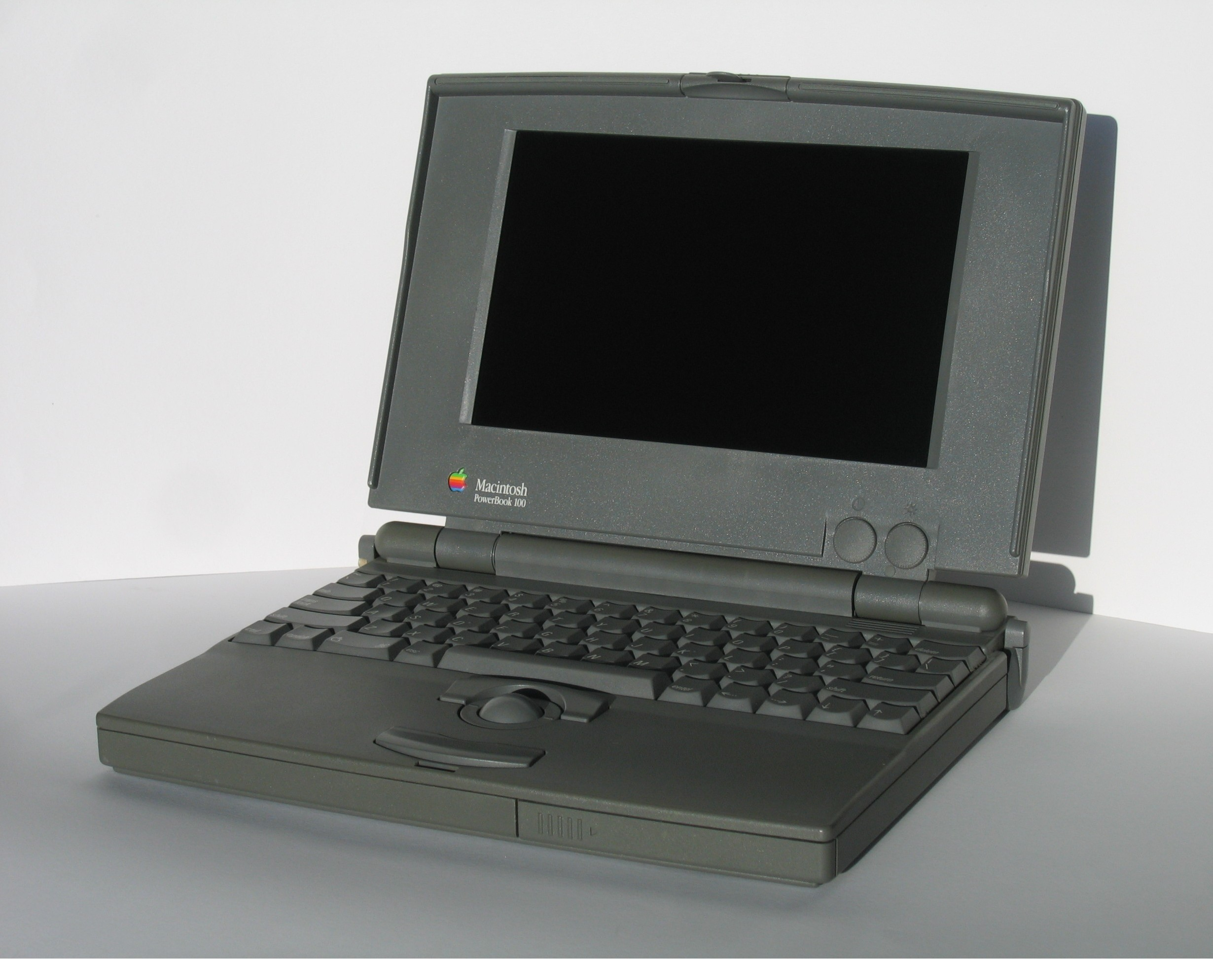 Photo by myself of Apple PowerBook 100 US version, external floppy drive and power cable not shown, computer switched off. Own photo, slightly retouched in the bottom left corner and on the battery lid, there to remove some small labelling. Cropped version of Image:PowerBook100_01_2007-02-17.jpg